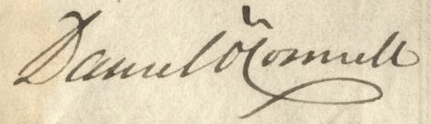 Signature of Daniel O'Connell cropped from a free frank letter he sent on April one 1835 from London to Bristol